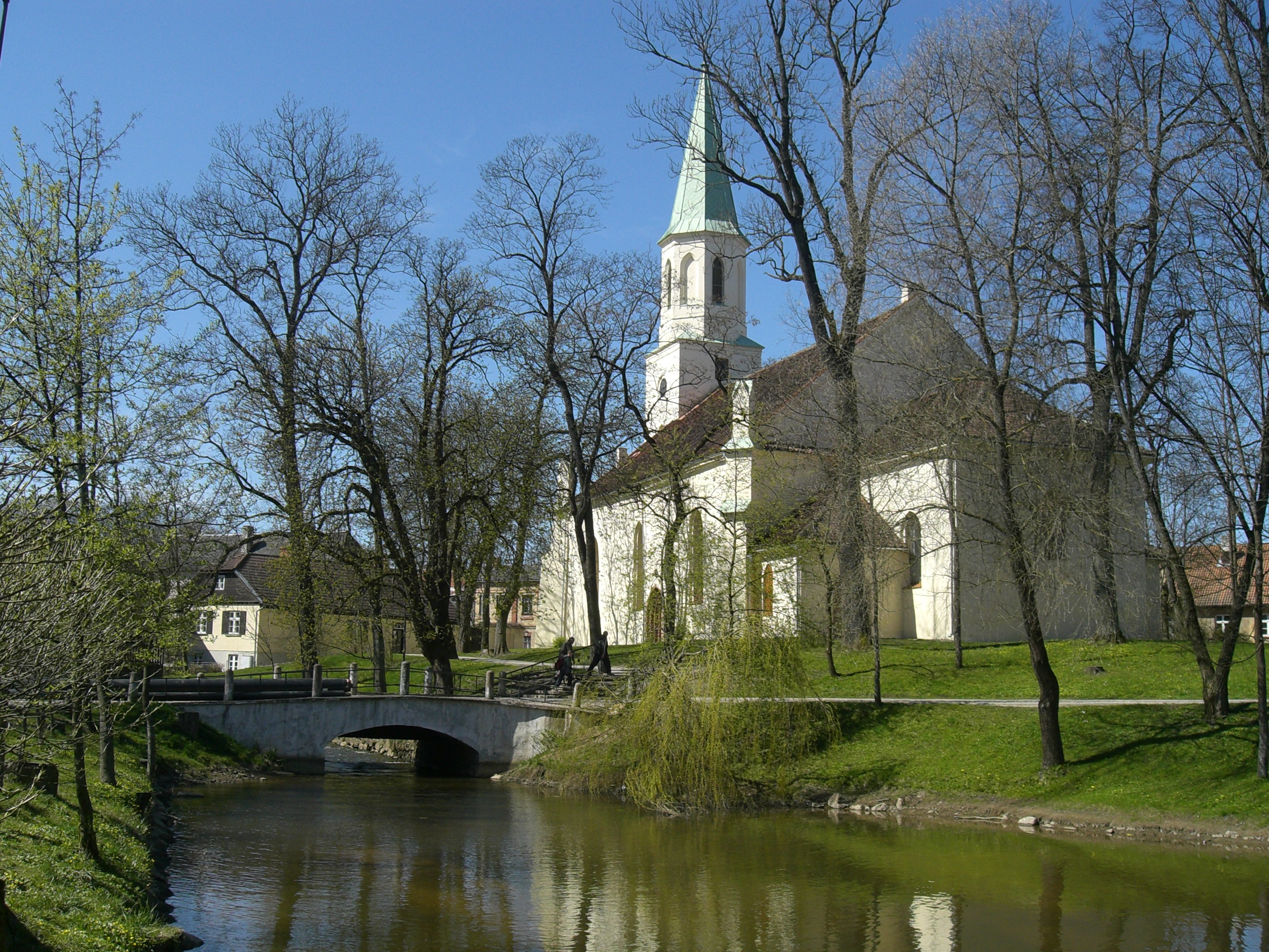 Kuldīga town, Latvia. St Catherine’s Church